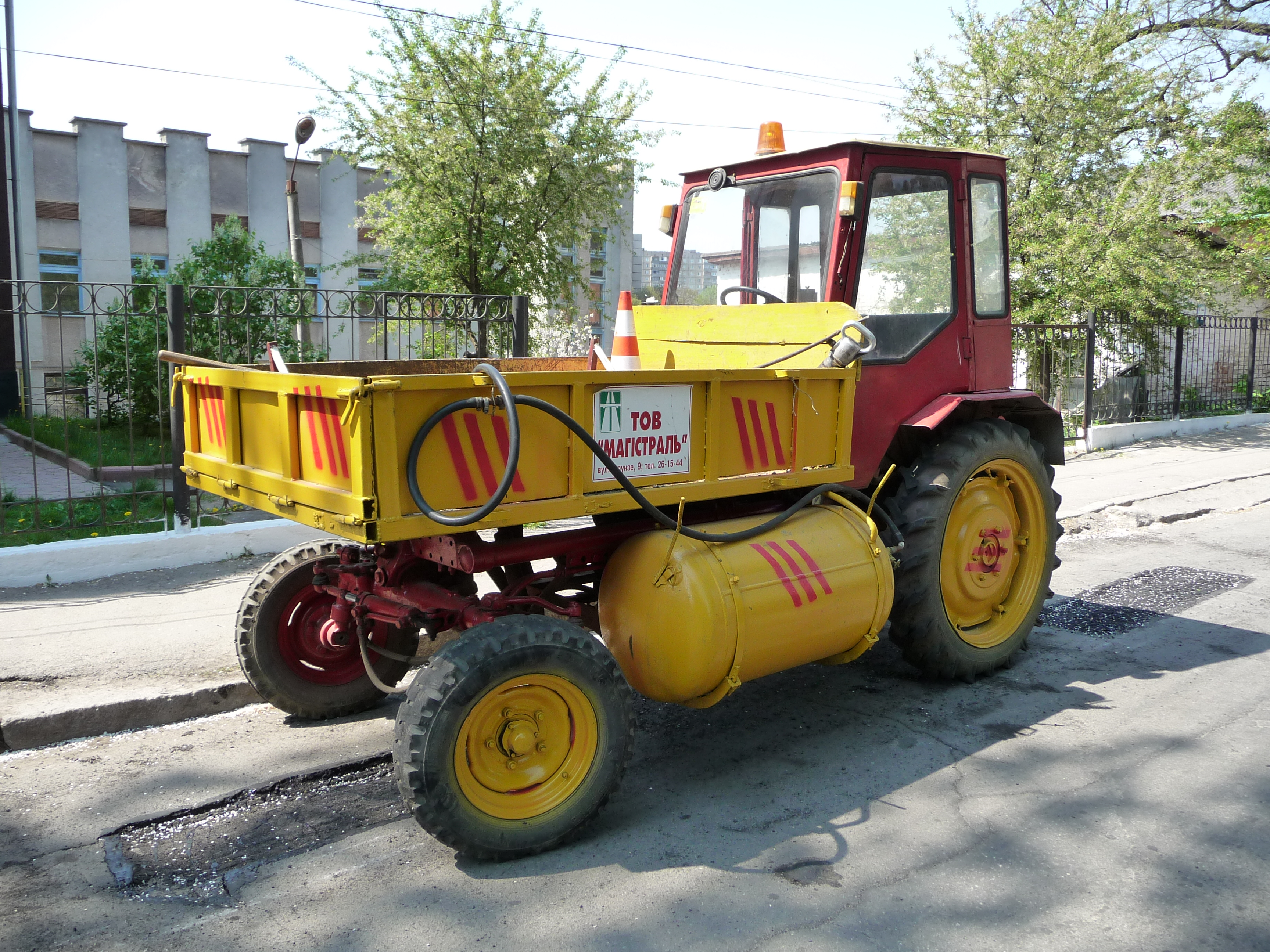 Tool carrier (T-16 tractor) in road repair service. Ukraine